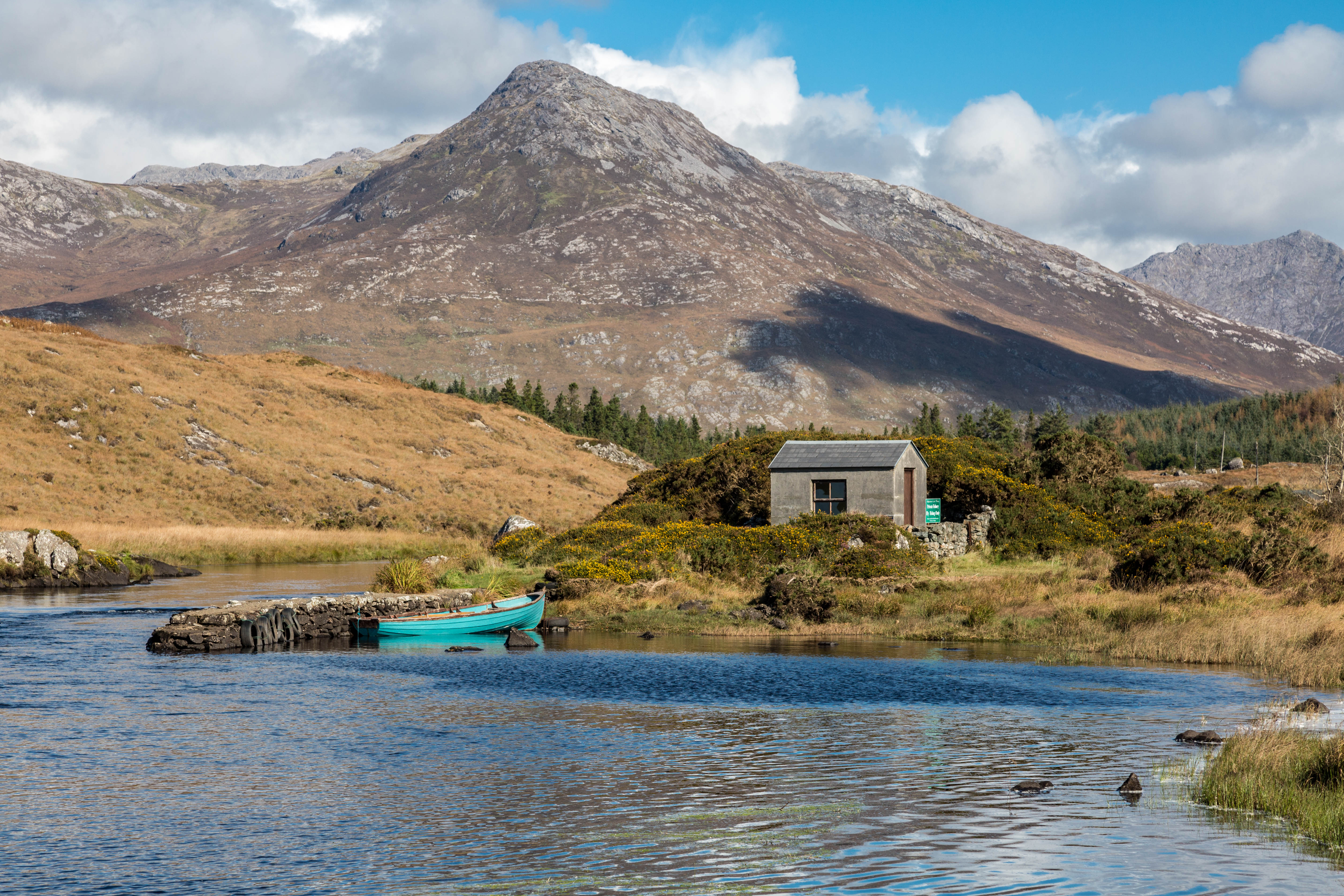 Benlettery behind the Ballynahinch Fishery. The grounds of the Ballynahinch Castle Fishery in County Galway, Ireland.